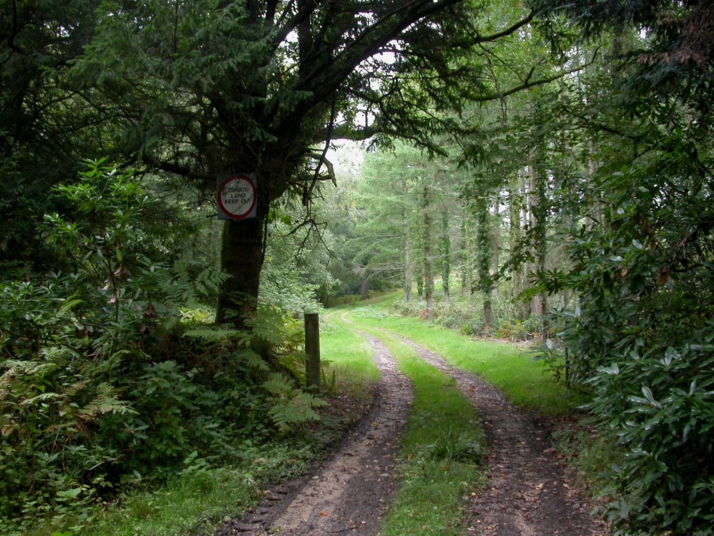 Redlynch, woodland track